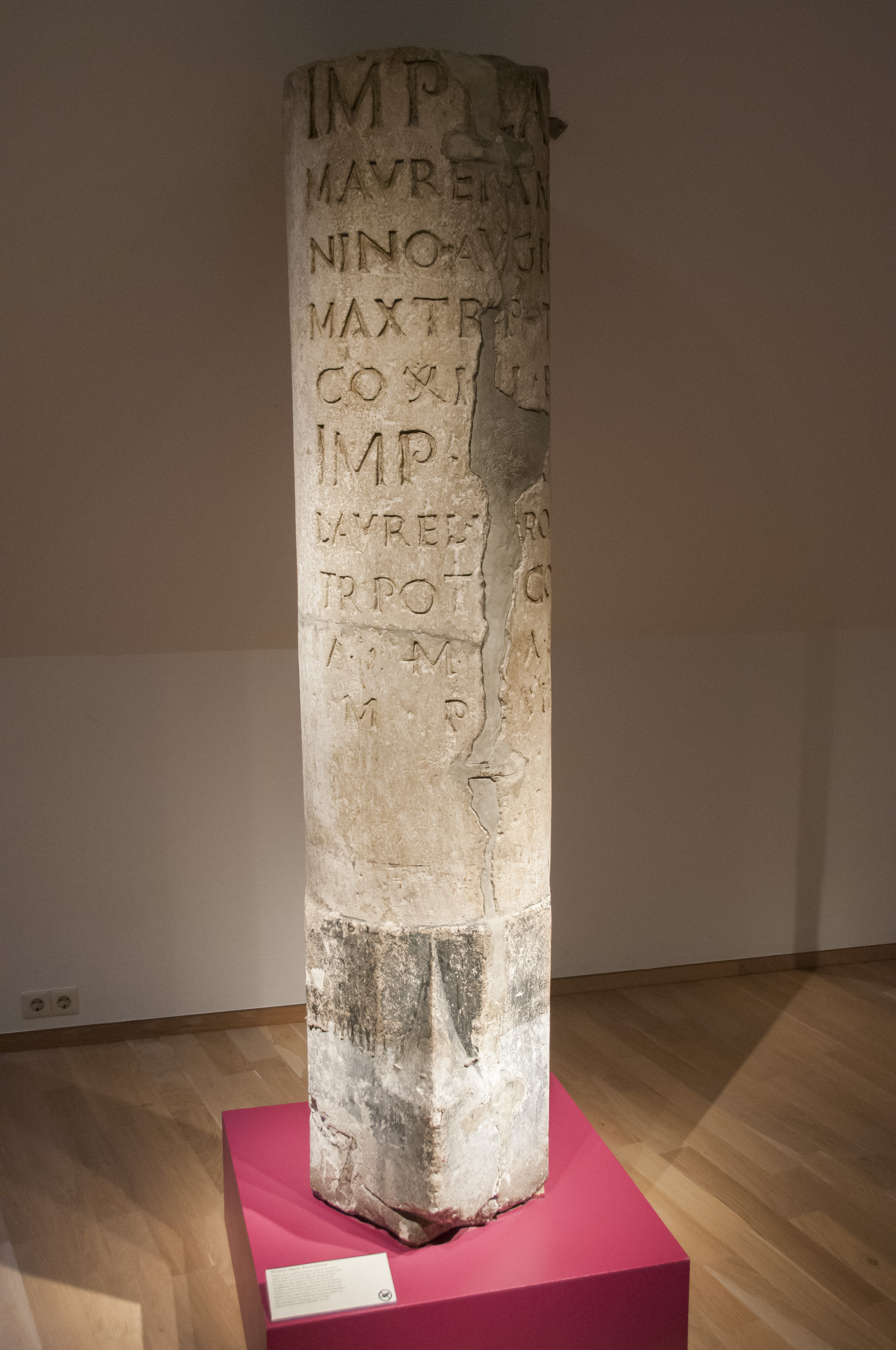 Roman milestone from Monster or Naaldwijk, Rijksmuseum van Oudheden, Leiden, NL